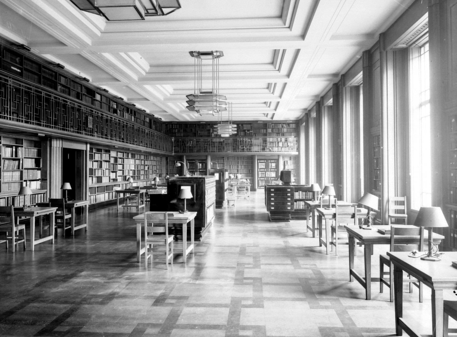 The Library Reading Room of the London School of Hygiene & Tropical Medicine in 1929. The Reading Room remains largely unchanged today. Image courtesy of the Library & Archives Service of the London School of Hygiene & Tropical Medicine